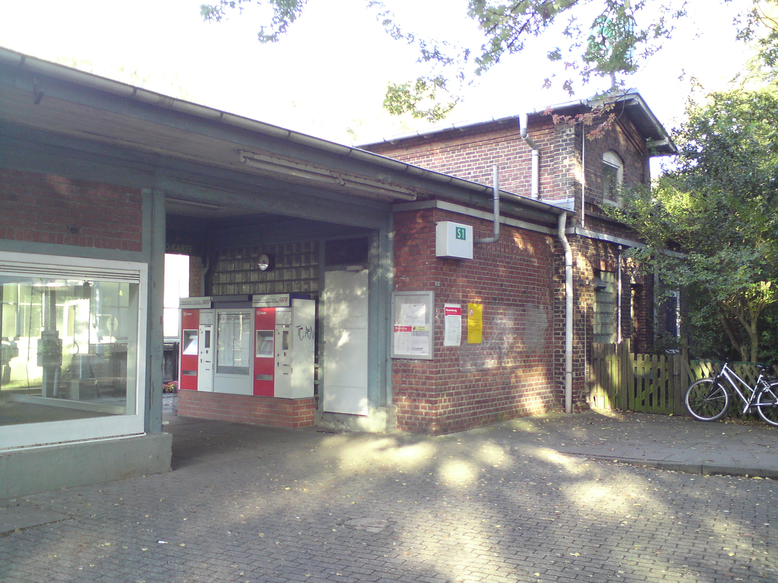 S-Bahn station Sülldorf in Hamburg, Germany, entrance